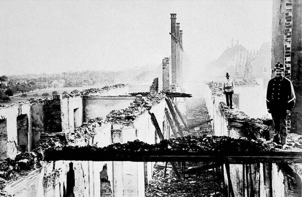 Muri abbey, August 1889: Firefighters standing on the walls of the gutted eastern wing.